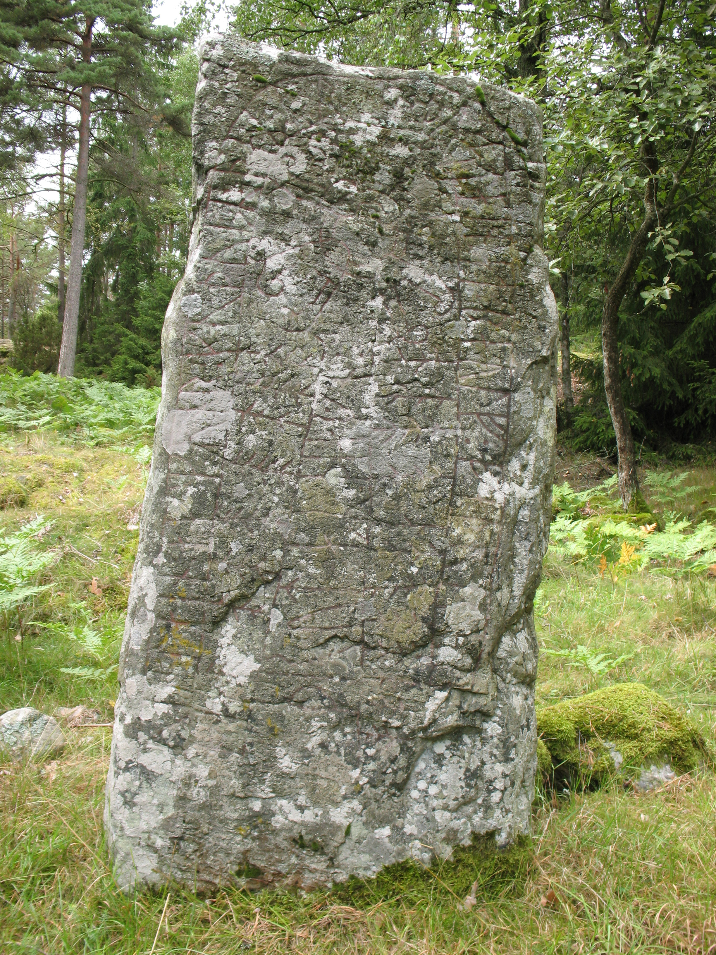 Runestone Sö 170 near the former farm Nälberga, NE of Nyköping. A road used to pass it, but today it is difficult to visit due to being located on a narrow strip of land between the motorway E4 and the railroad. Visitors need to pass several stretches of barbed wire.